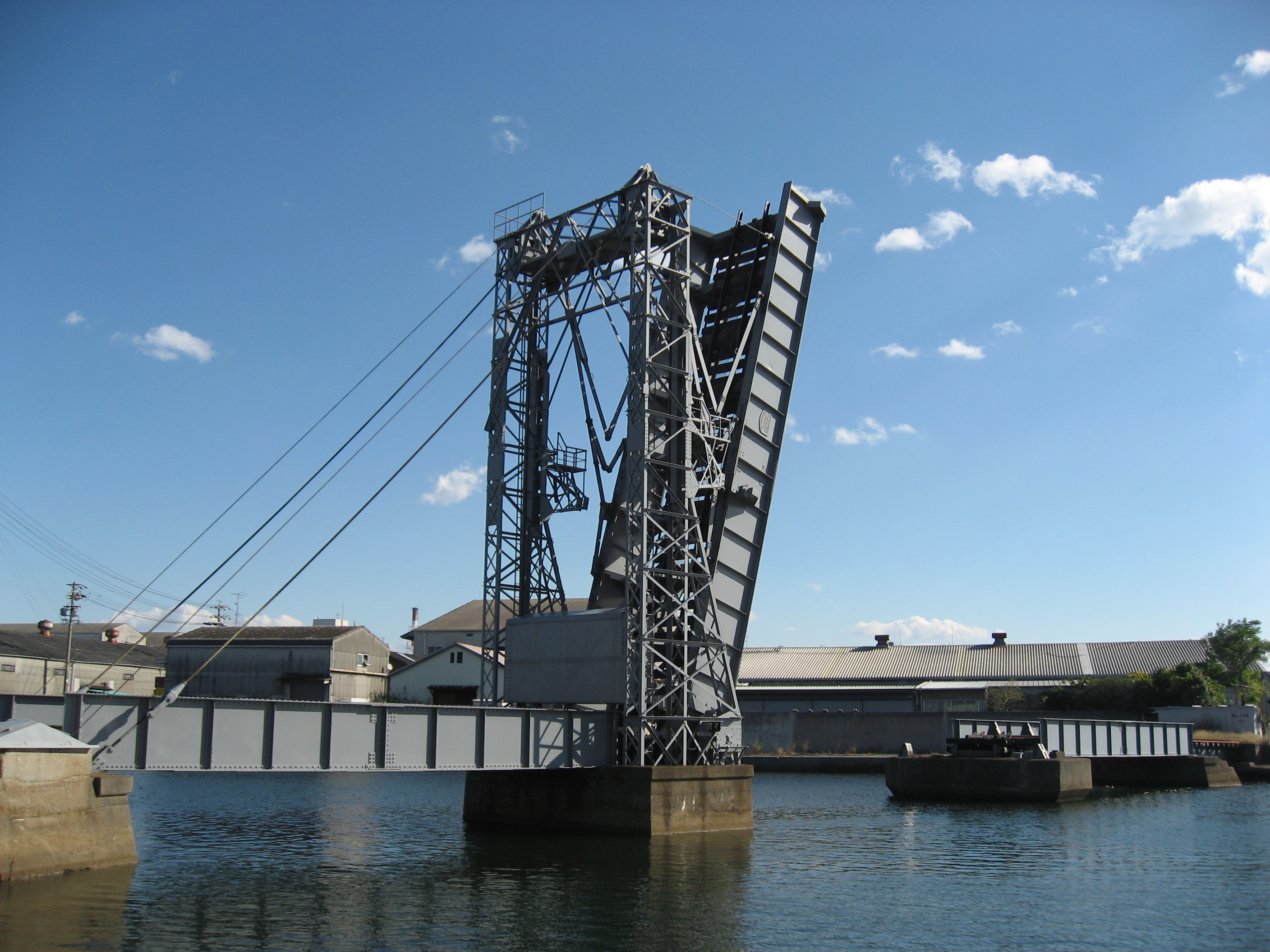 Suehiro bridge: a bascule bridge in Yokkaichi city, Mie prefecture, Japan.